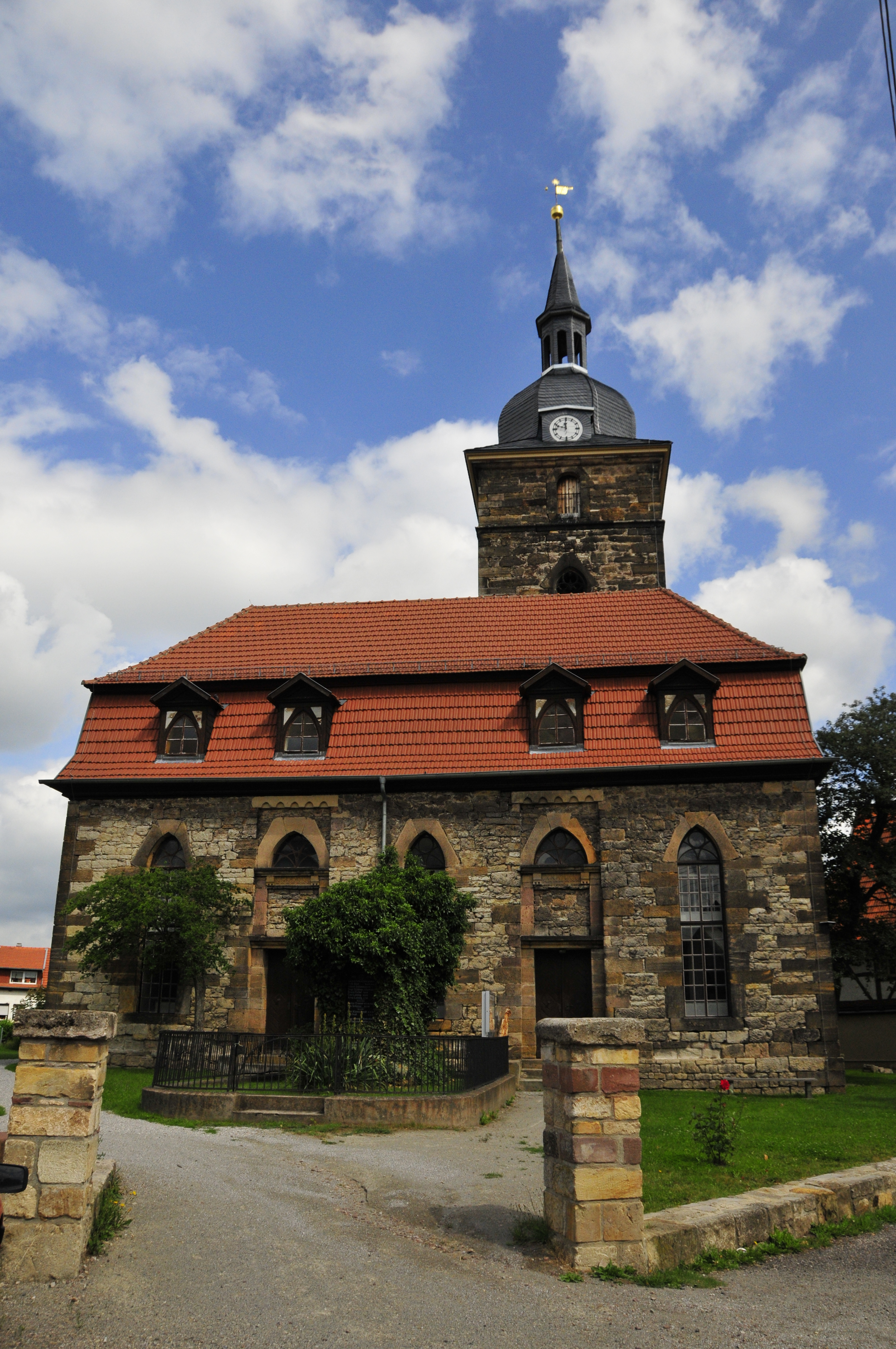 Church of Wahlwinkel, district of Waltershausen